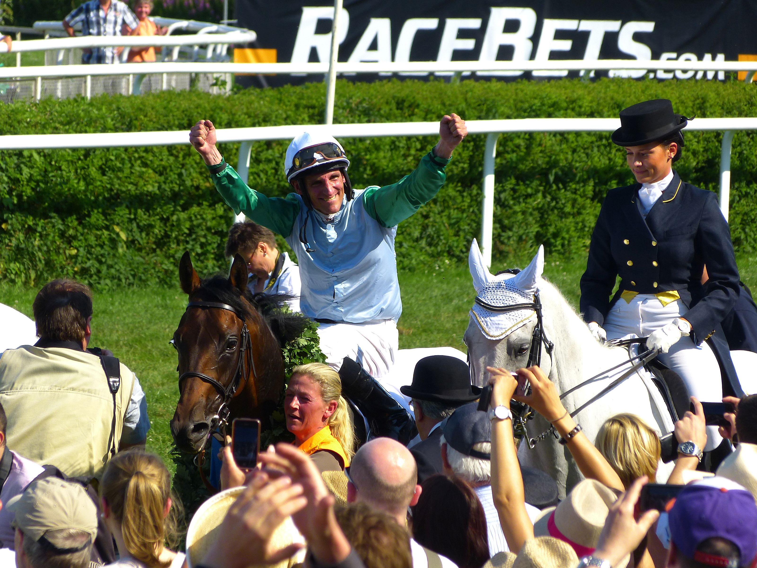 Andrasch Starke on Lucky Speed after winning the German Derby 2013